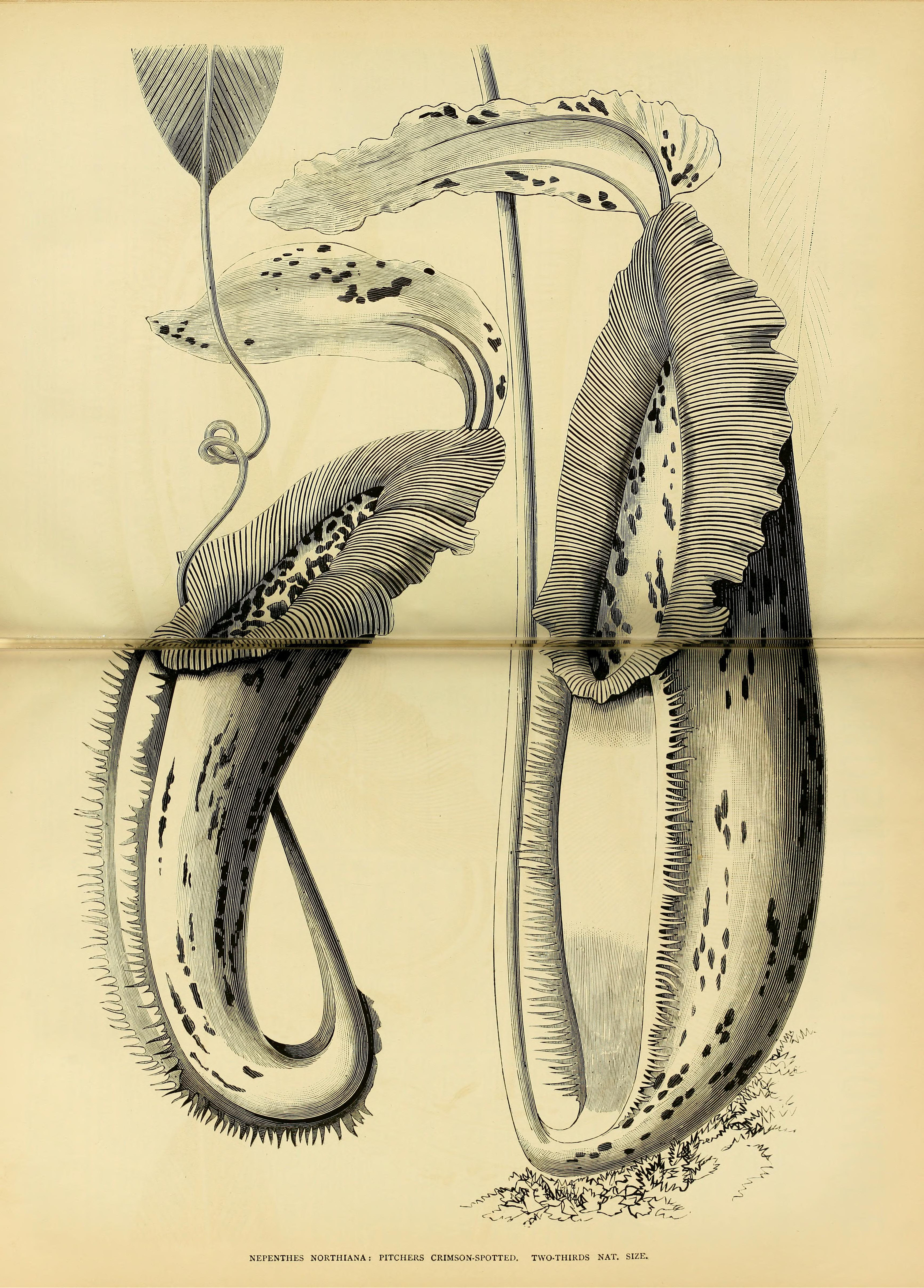 Illustration of Nepenthes northiana from the type description.